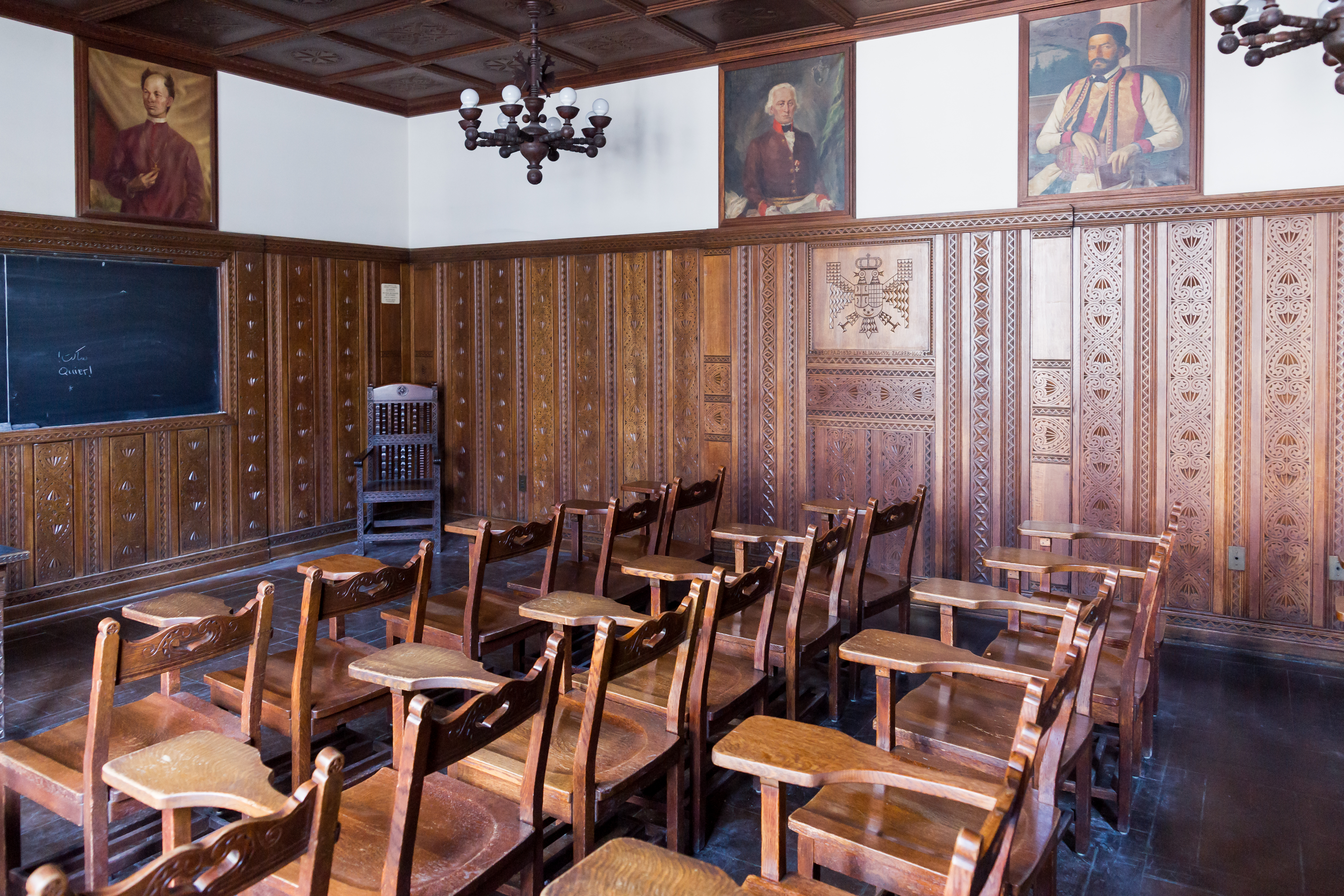 Yugoslav Nationality Room in the Cathedral of Learning at the University of Pittsburgh